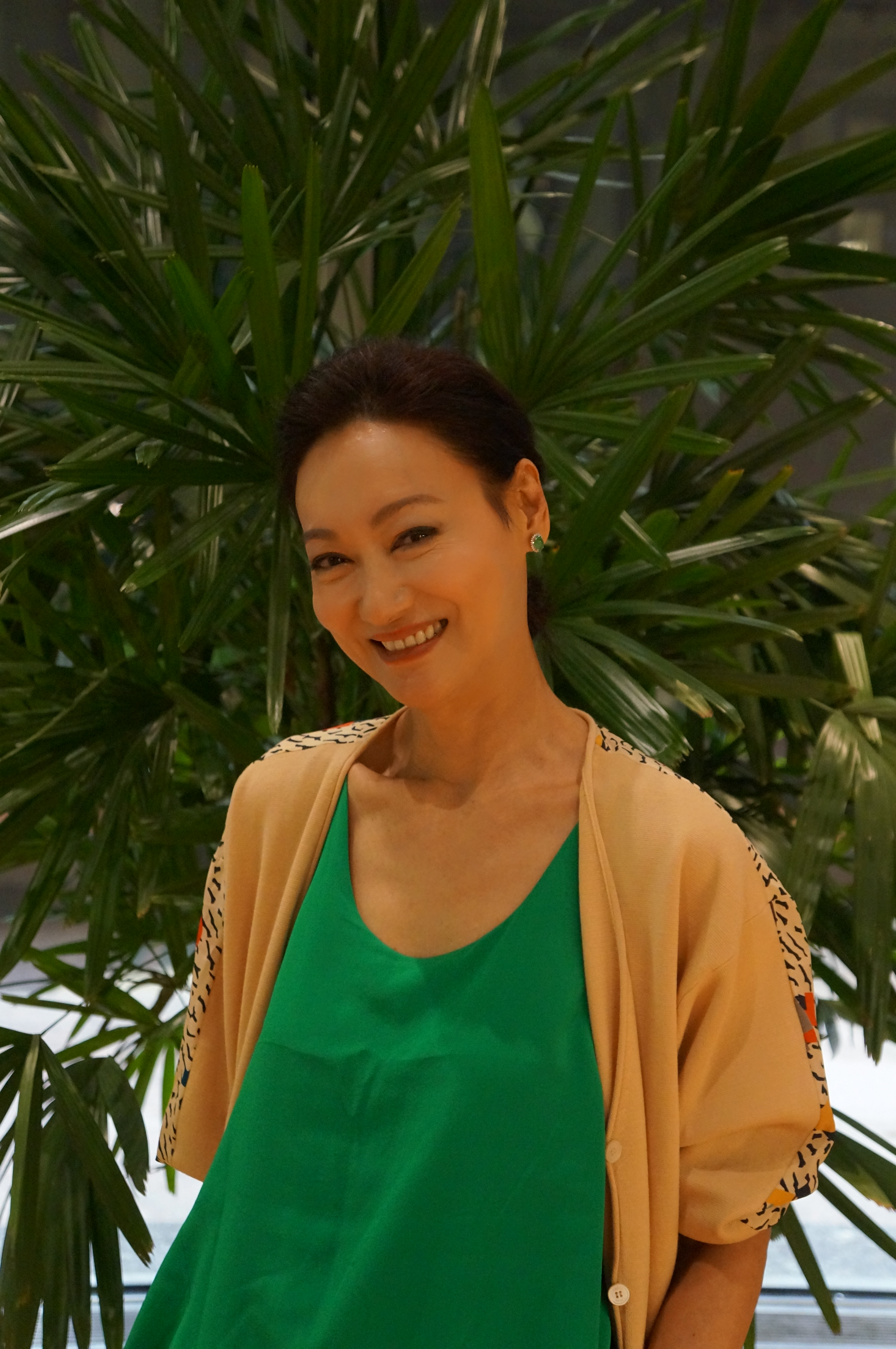 At the USA Smithsonian Institution world premiere of the Hong Kong film Happiness on July 15, 2015, Kara Wai